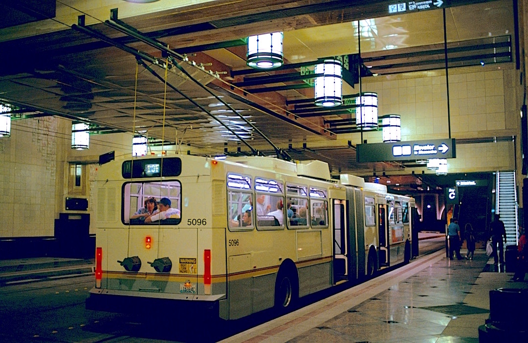 Breda-built dual-mode bus 5096, of Seattle's Metro Transit, westbound at Westlake station in the Downtown Seattle Transit Tunnel. The photo was taken on Monday, September 17, 1990, the second day of service in the tunnel (the first being Saturday, Sep. 15) and the first weekday. No. 5096 was in service on route 107. (Metro was not yet part of King County government at that time.)